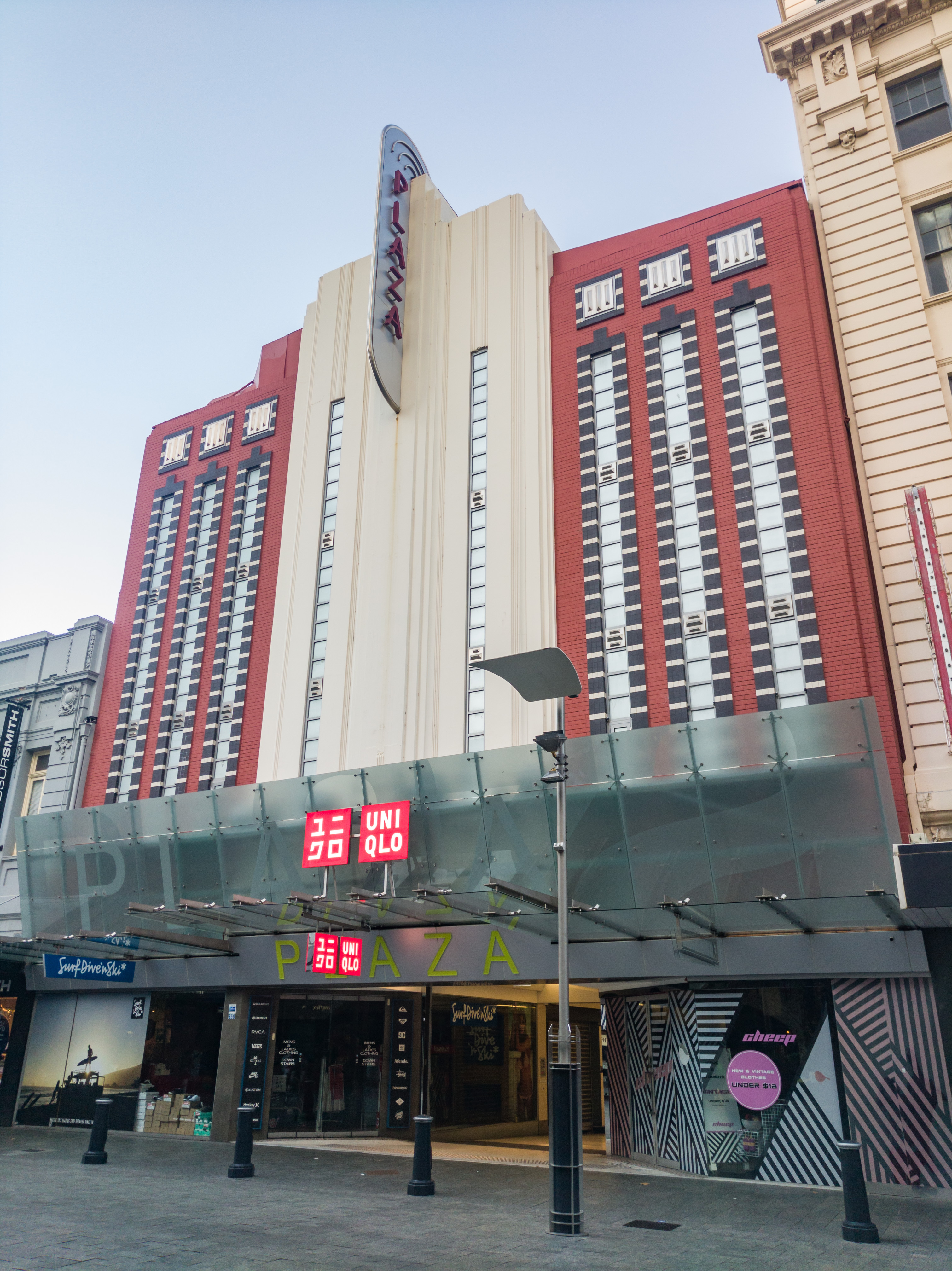 Plaza Theatre and Plaza Arcade from the Hay Street Mall